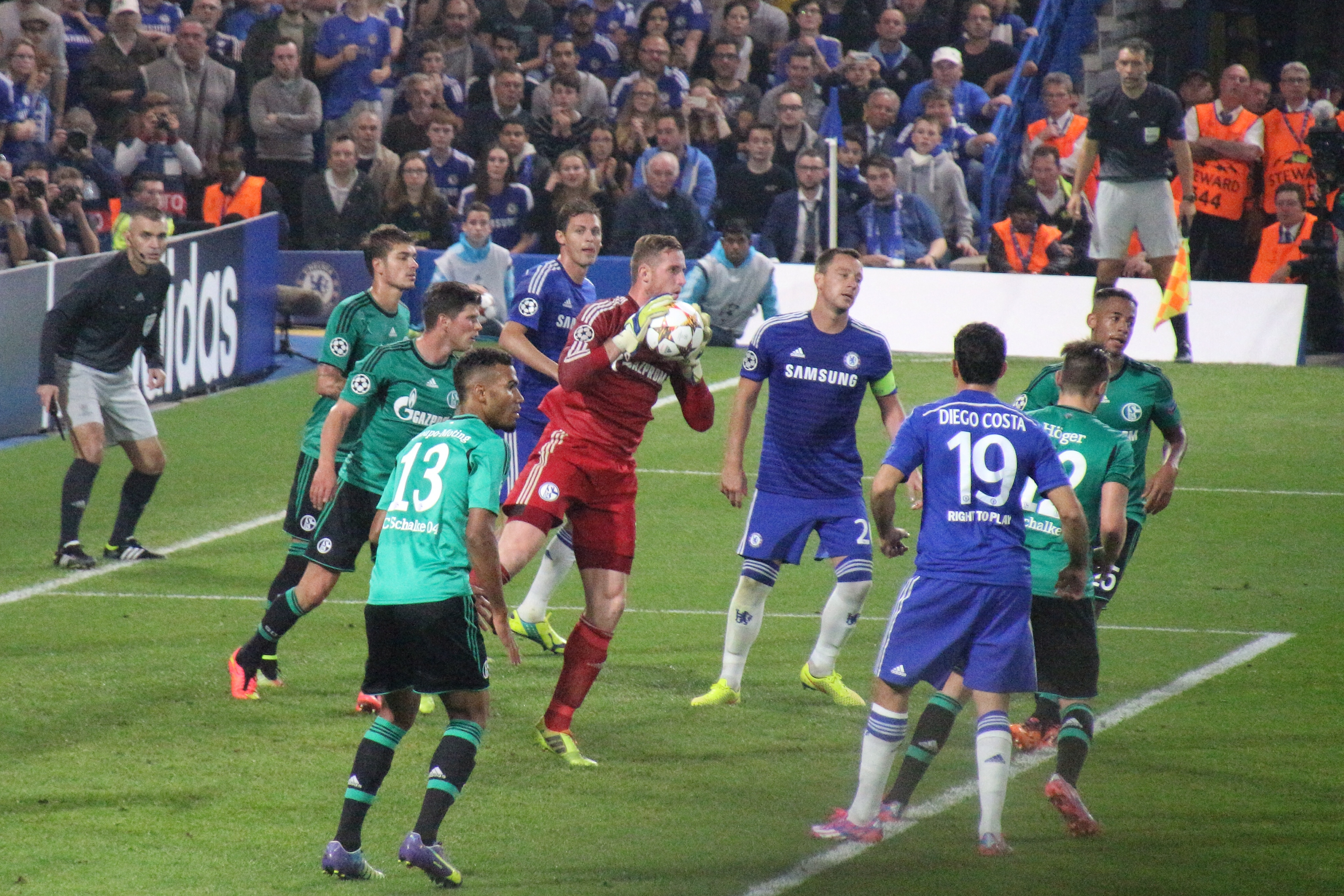 Champions League match between Chelsea and FC Schalke 04 at Stamford Bridge on 17 September 2014.